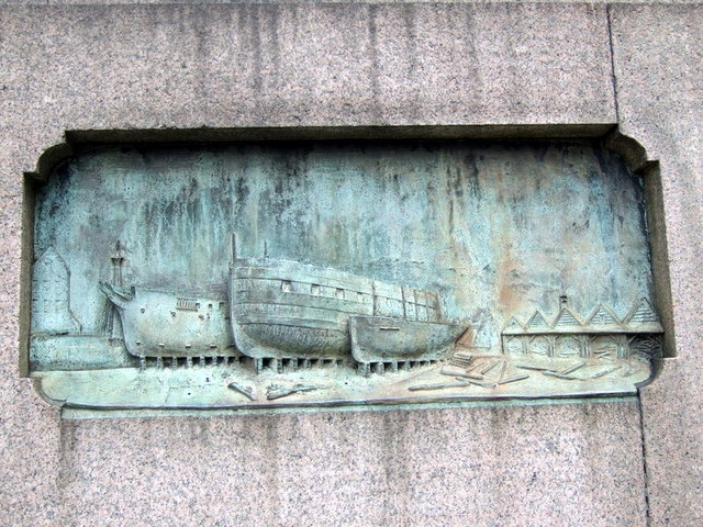 Richard Green's statue: western relief The bronze relief on the western side of the pedestal below the statue of Richard Green depicts the construction, in his yard at Blackwall, of a frigate for the Spanish government, which was going on at the time of his death in 1863.